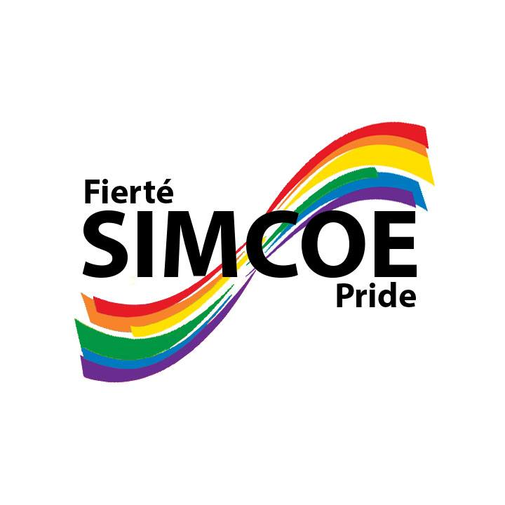 The logo of Fierté Simcoe Pride as of 2016